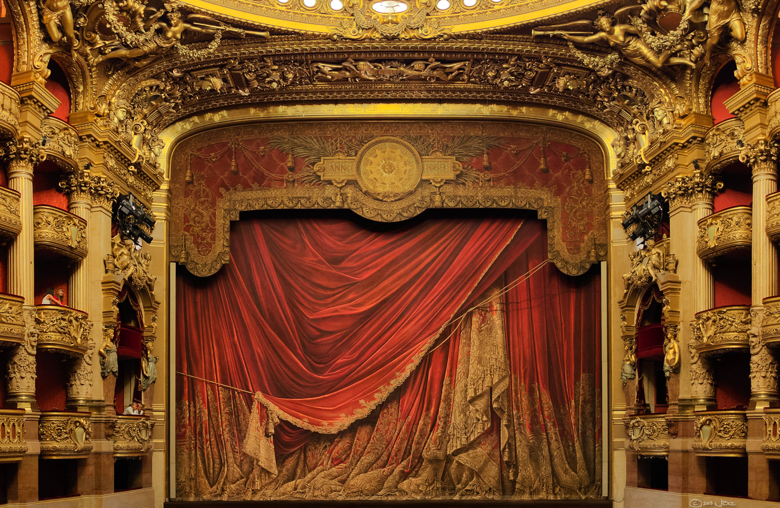 Main stage of the Palais Garnier, Paris.